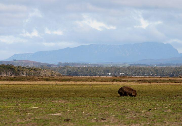 Narrawntapu National Park, Tasmania.